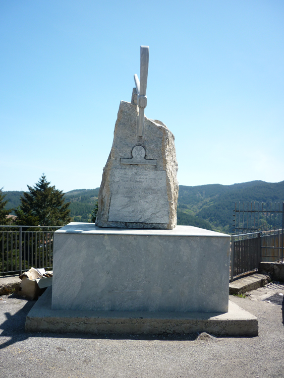 San Giovanni in Fiore - Monument to the Monongah Mining disaster